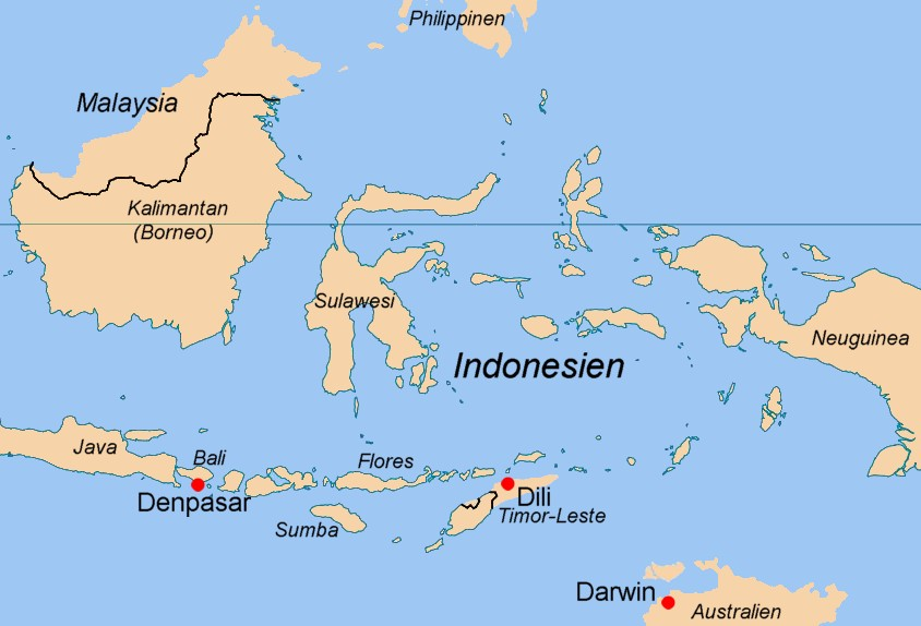 Planed destinations of Timor Air (2008) Source of informations:The Age, 27. November 2008, Timor Air set to take to the skies